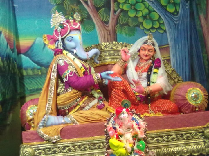 Ganesh Chaturthi celebrated in Vadodara (Baroda), Gujarat.